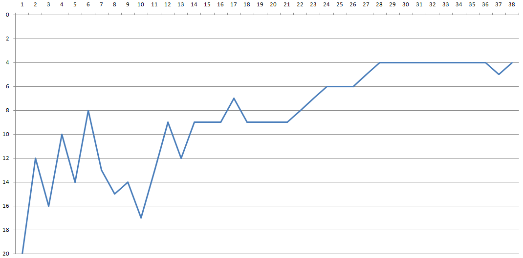 Spanish Football/Soccer: Real Sociedad's progression during the 2012-13 season.